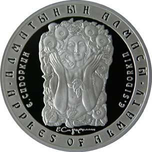 Coin of Kazakhstan